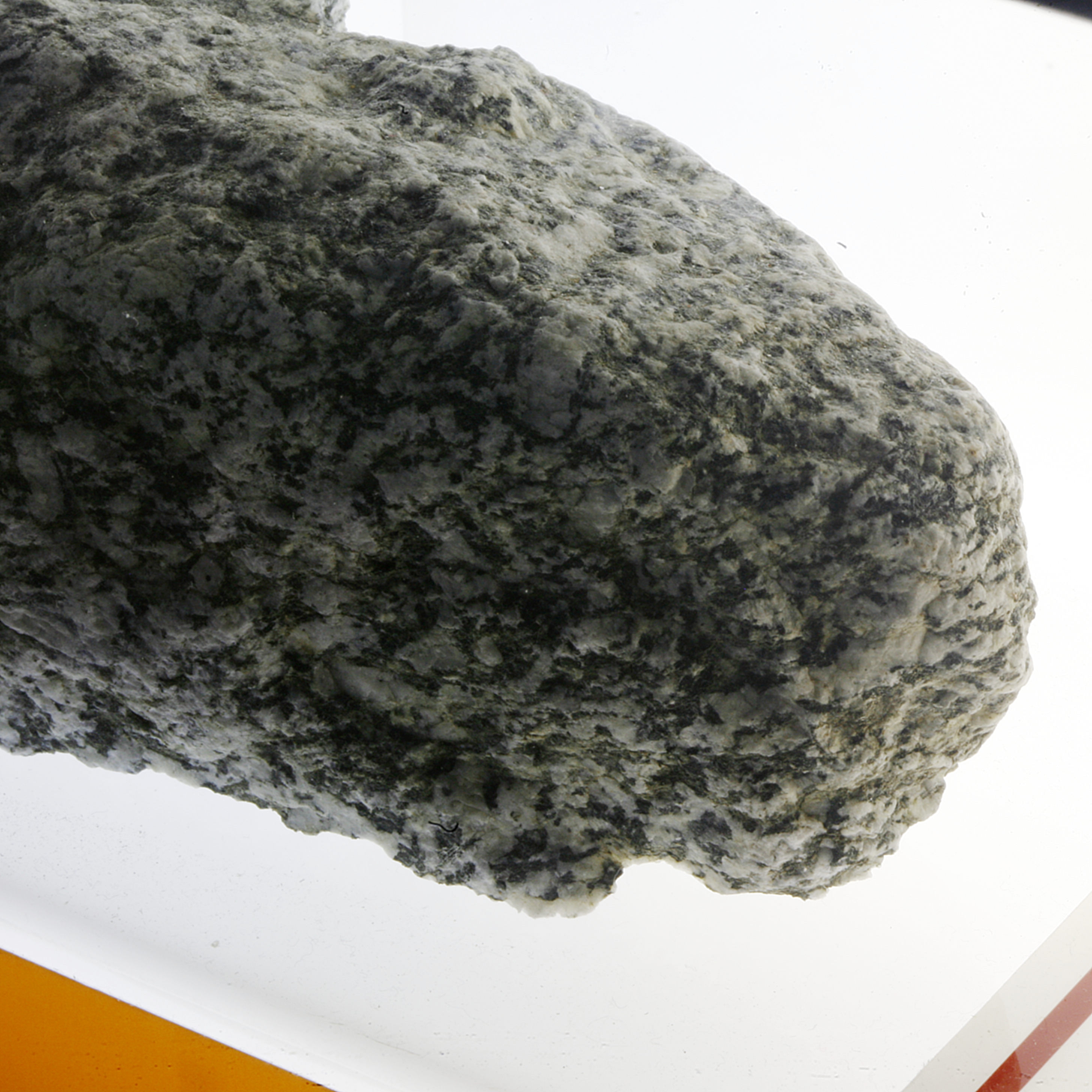 Porphiric quartz. Photographed at Gotthard Base Tunnel exhibition.